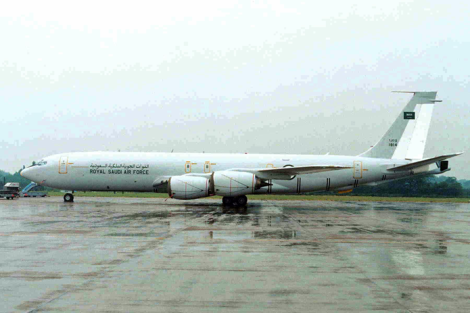 1814 Boeing KC-135 RSAF MAN